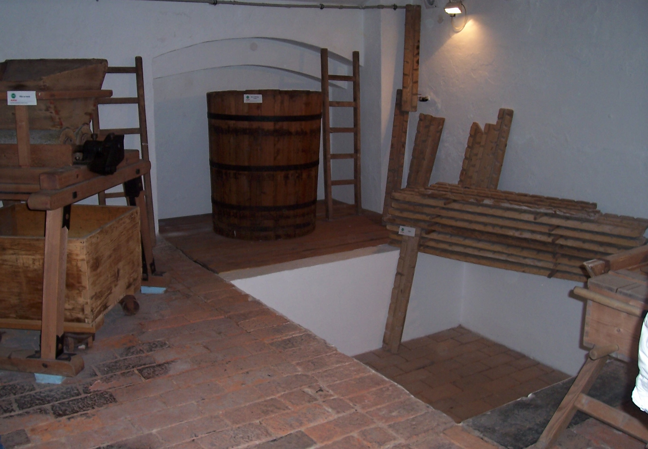 Loštice, Olomouc District, Czech republic. Muzeum olomouckých tvarůžků (Museum of Olomouc smell cheese).